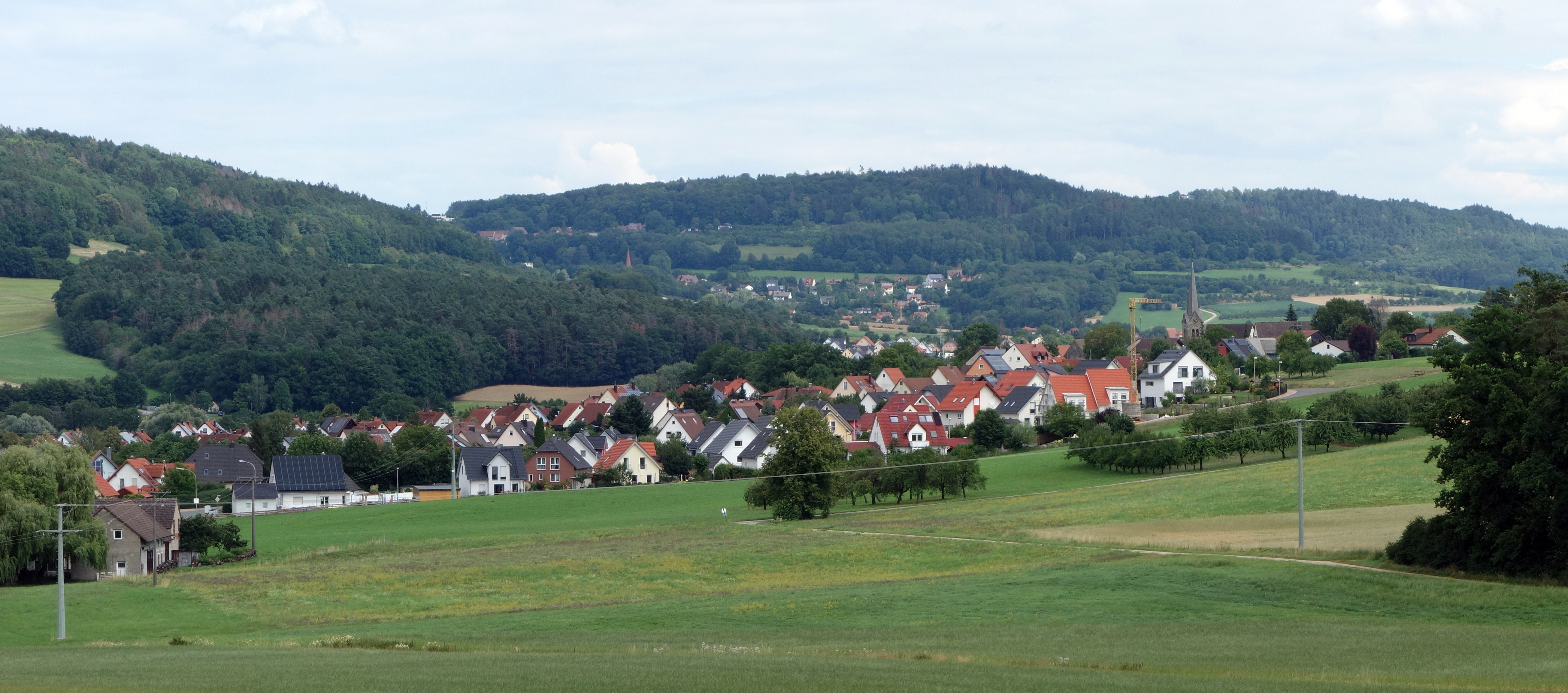 A panorama of Stöckach, a village of Igensdorf, a town in northern Bavaria